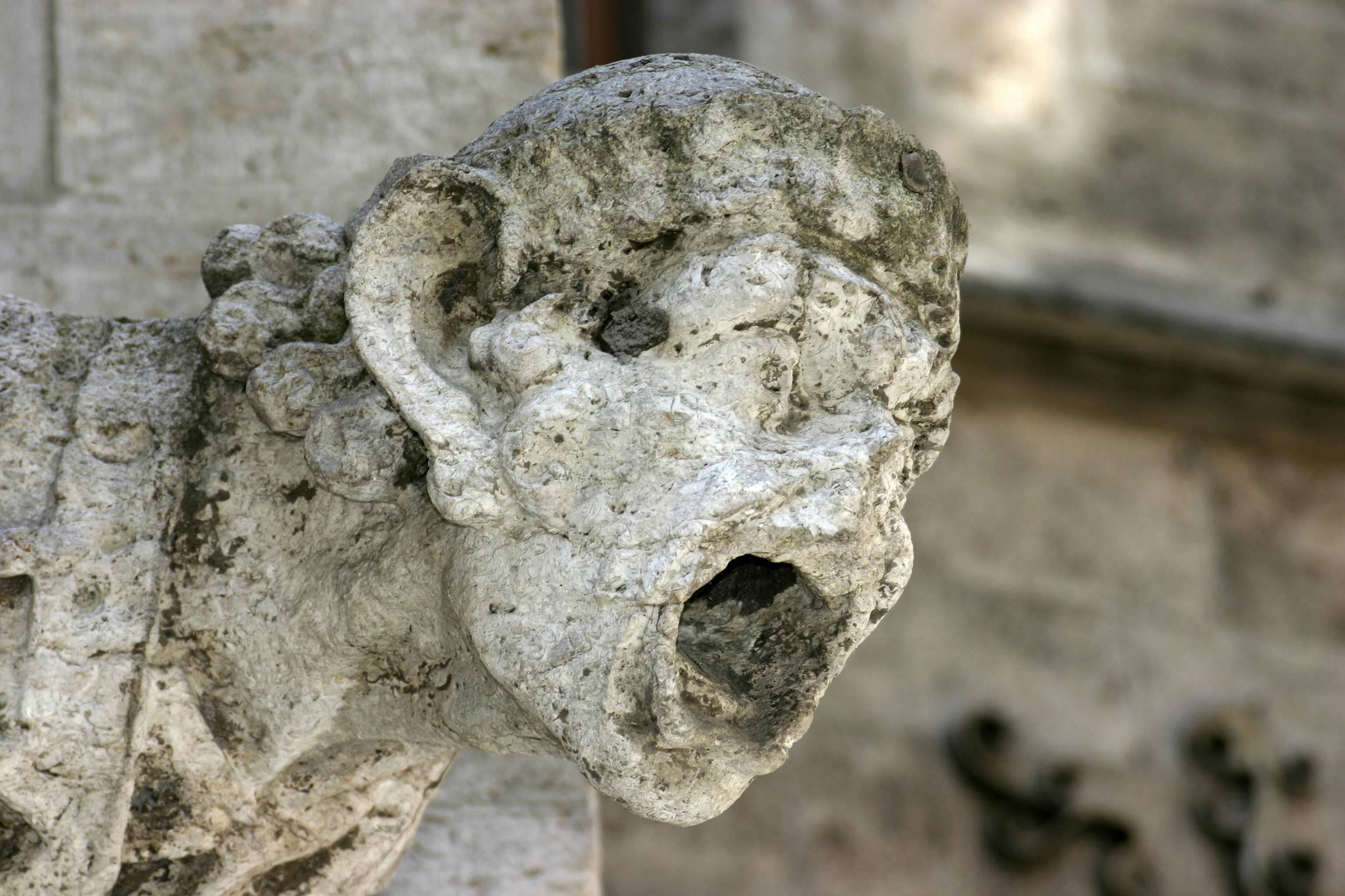 Gargoyle